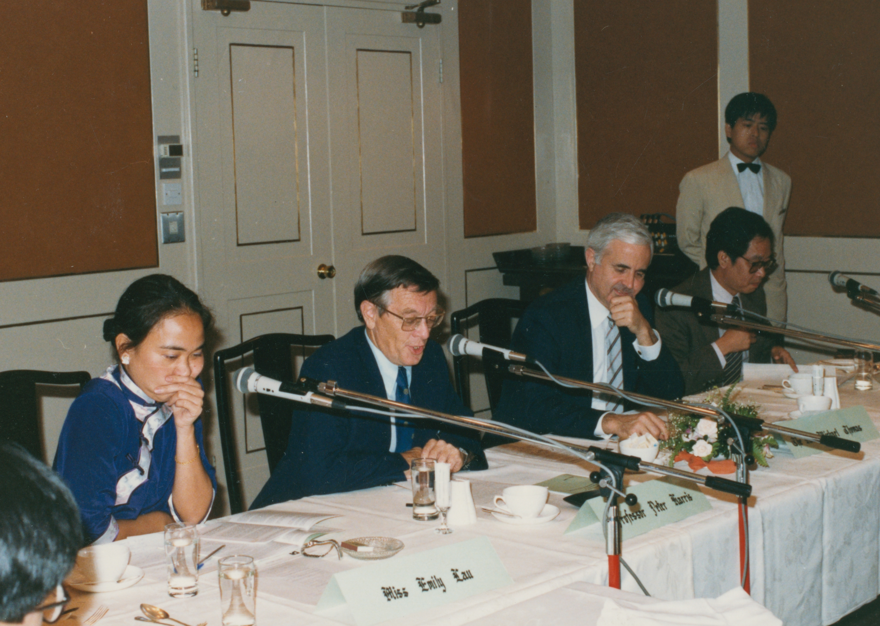 Left to right: Miss Emily Lau (a member of the Press) , Professor Peter Harris, The Hon. Michael Thomas, the Hon. Stepen Cheong (a member of the Legislative Council) IMAGELIBRARY/310 Persistent URL